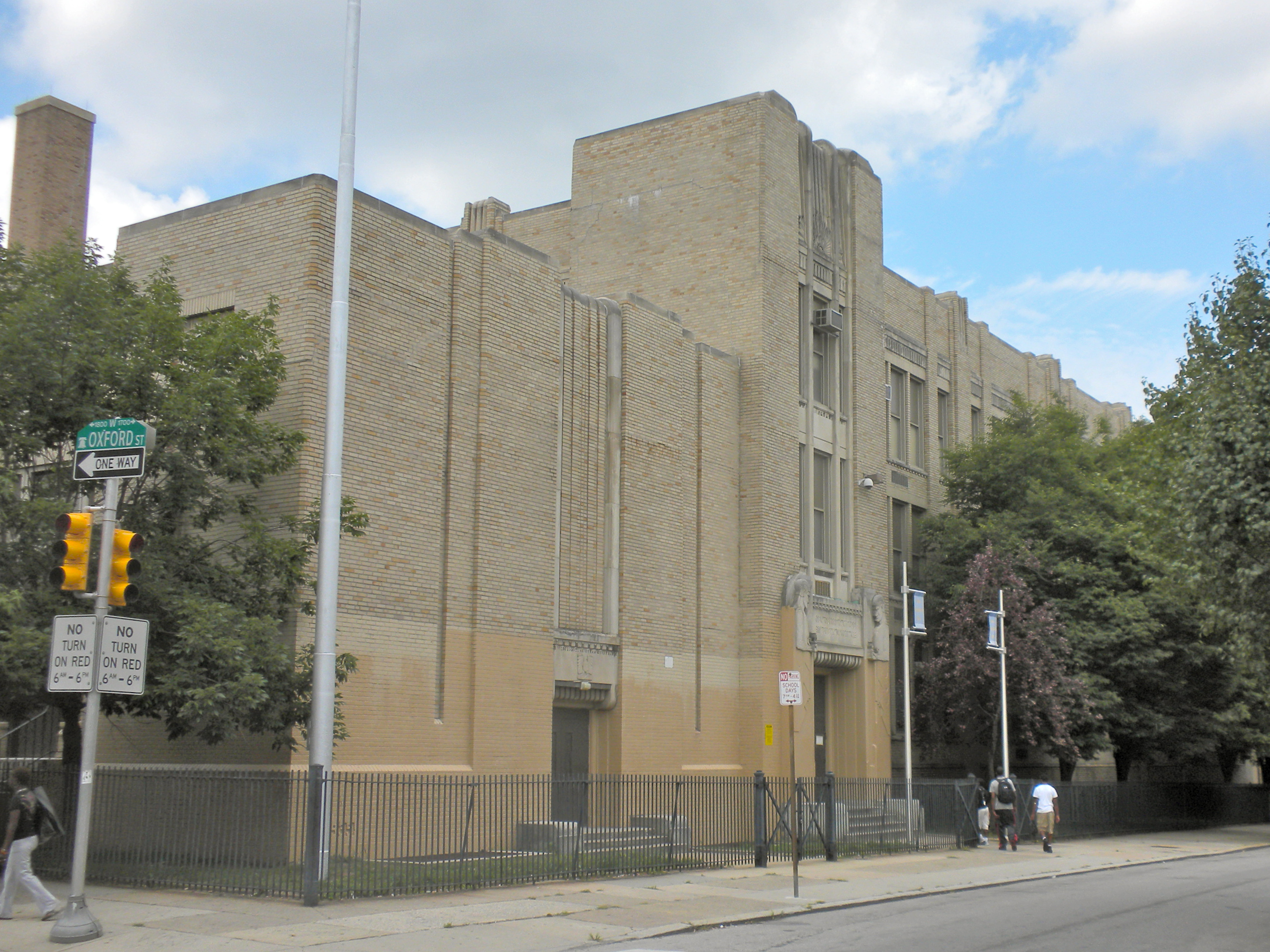 George Meade School in Philadelphia, on the NRHP since December 4, 1986. At 1600 N. 18th St. in the North Central neighborhood of North Philly. Named after the commanding Union General at Gettysburg (who lived in Philly)